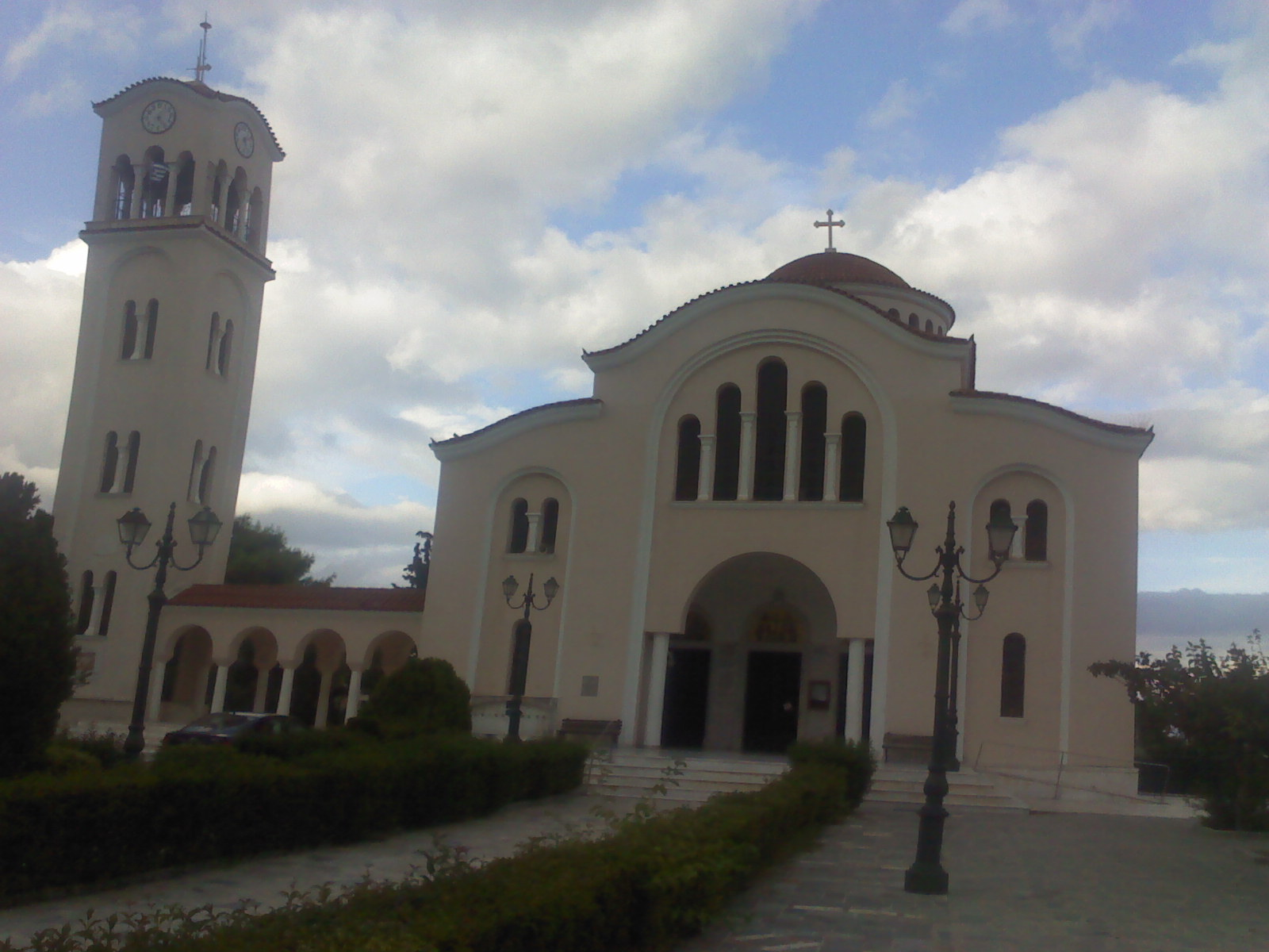 Agios Konstantinos Eleni Nea Makri